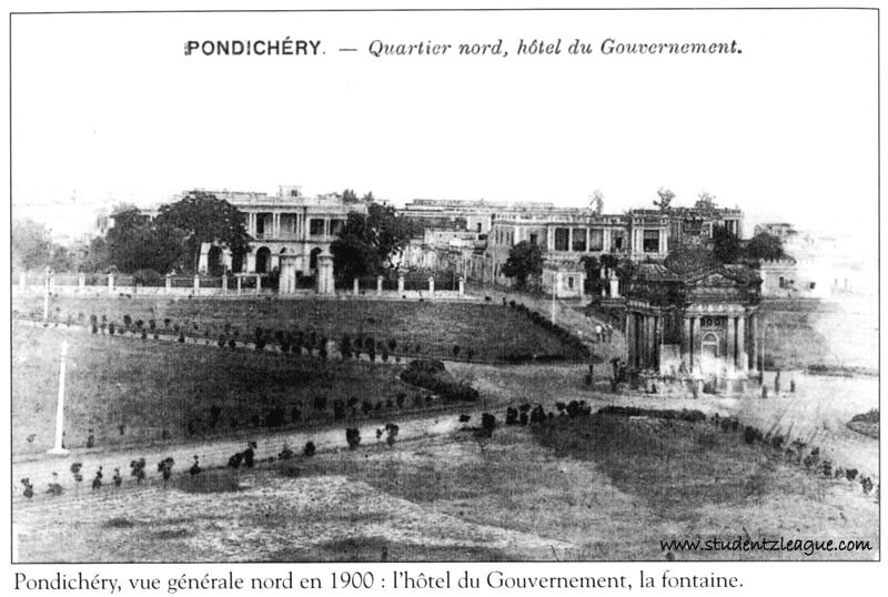 The Governor's Palace in 1910